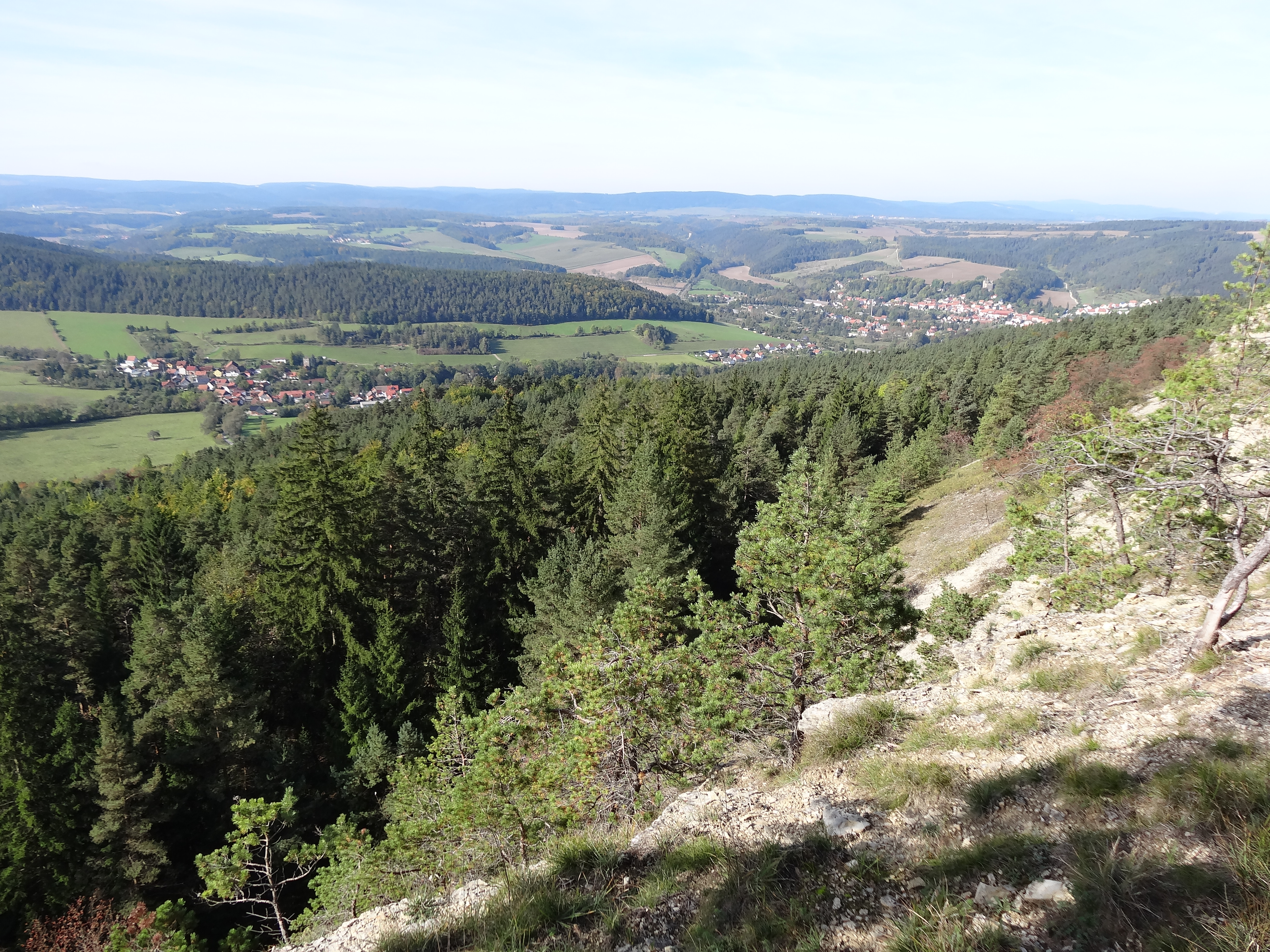 View on Kleinbreitenbach and Plaue, Thuringia, Germany